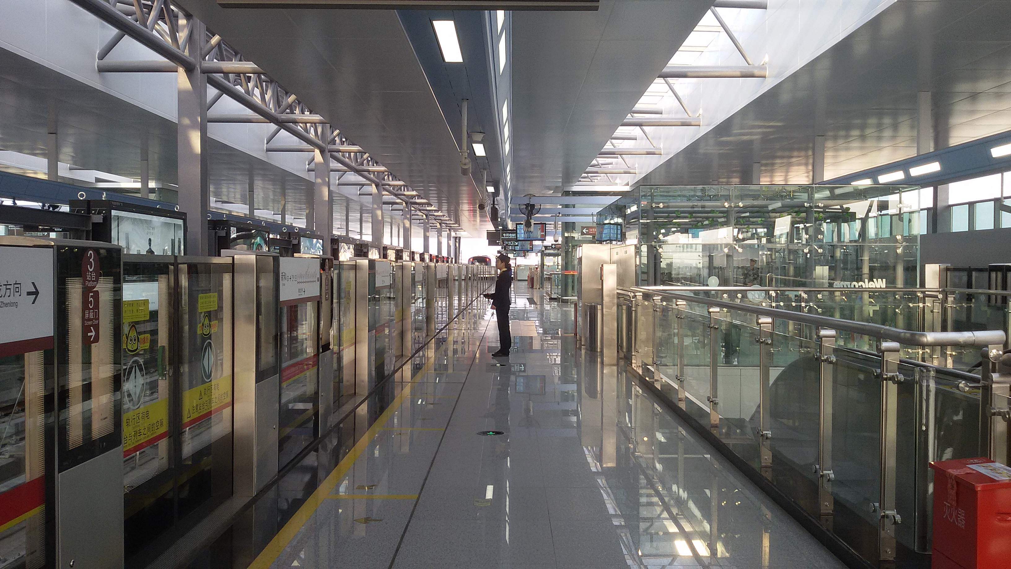 Station Platform for Xinhe Station in Guangzhou Metro.